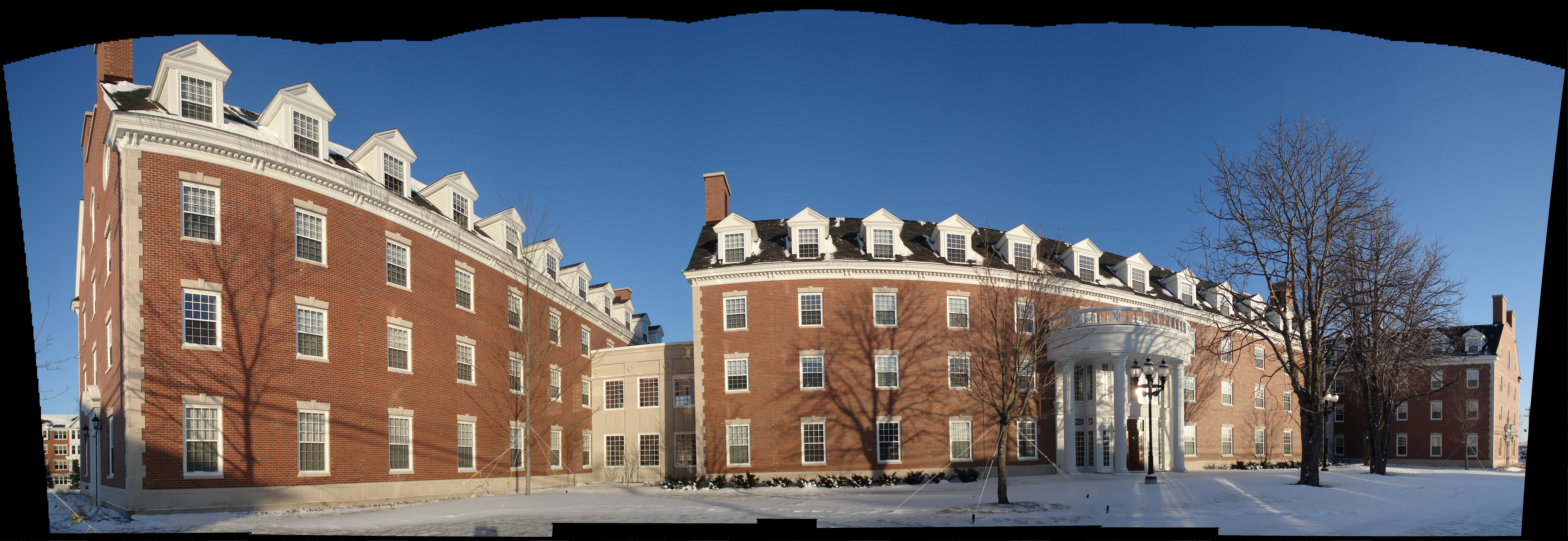 Governors Hall residence at St. Francis Xavier University, Antigonish, Nova Scotia, Canada. Completed in 2006.